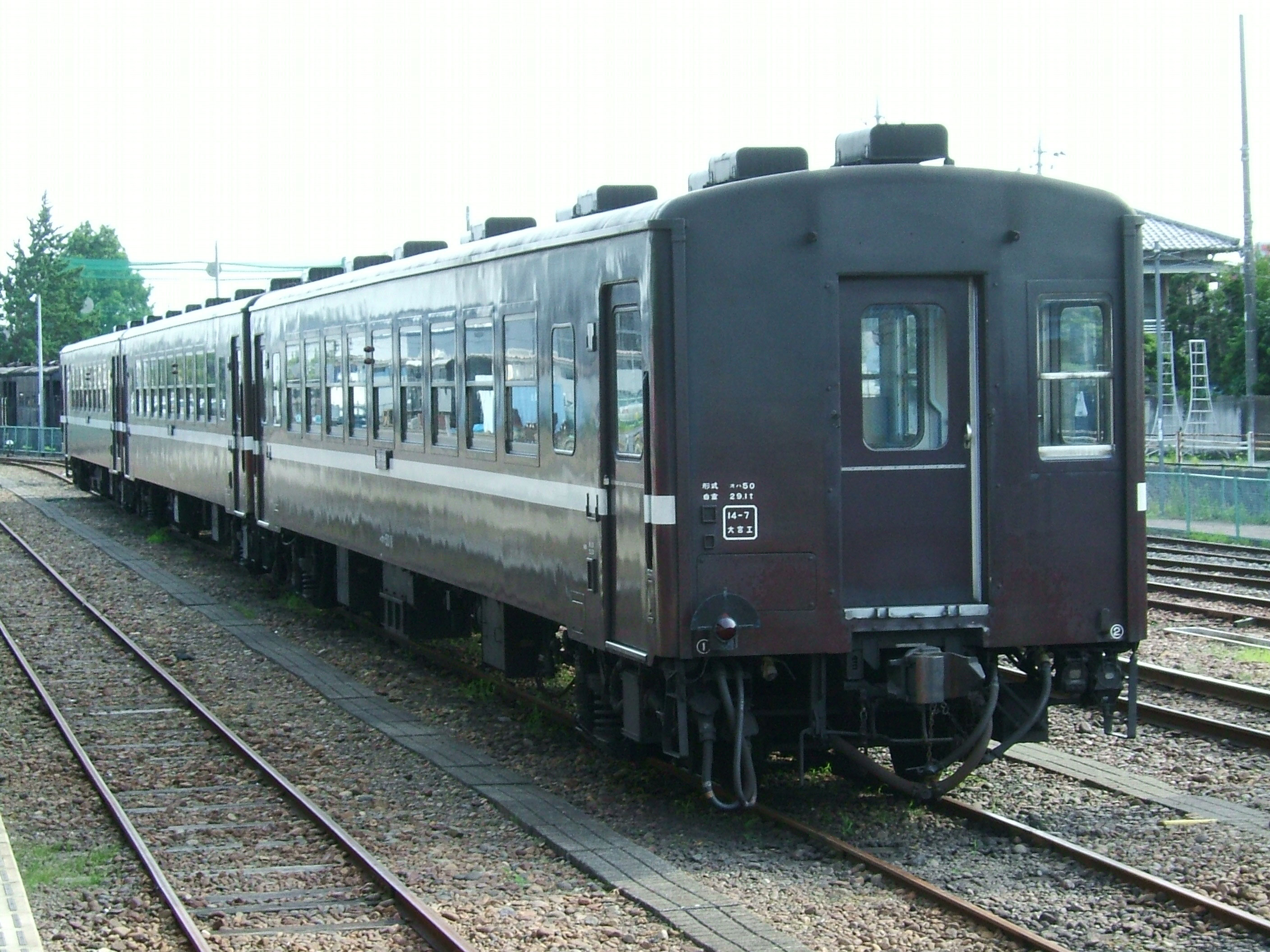 Mōka Railway passenger car